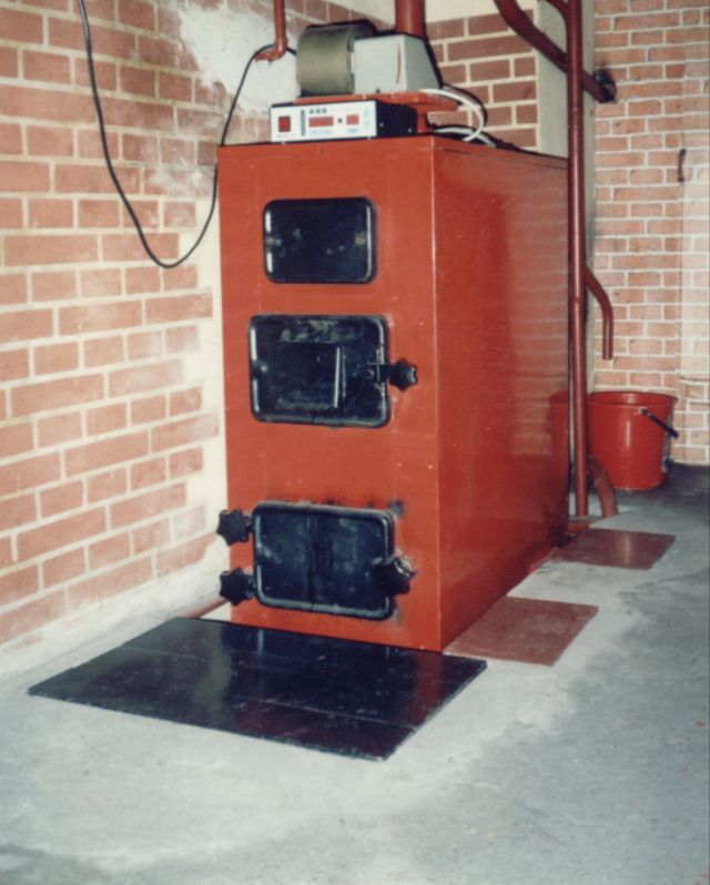 Hot water supply boiler